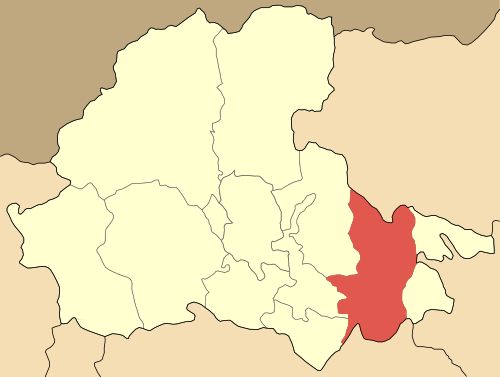 Locator map of Giannitson municipality (Δήμος Γιαννιτσών) at Pellas perfecture, Macedonia, Greece.